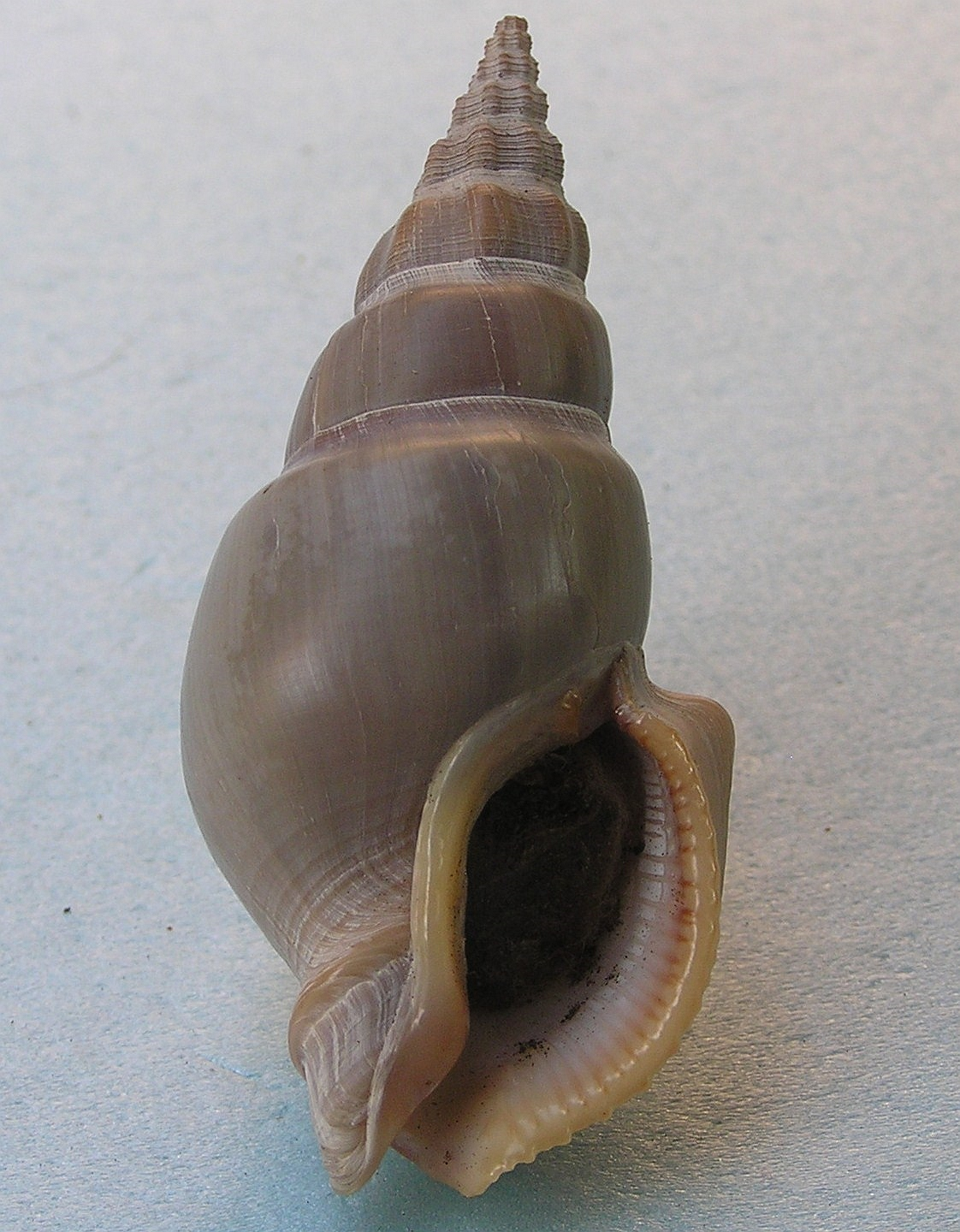 Northia pristis, a true whelk from the family Buccinidae